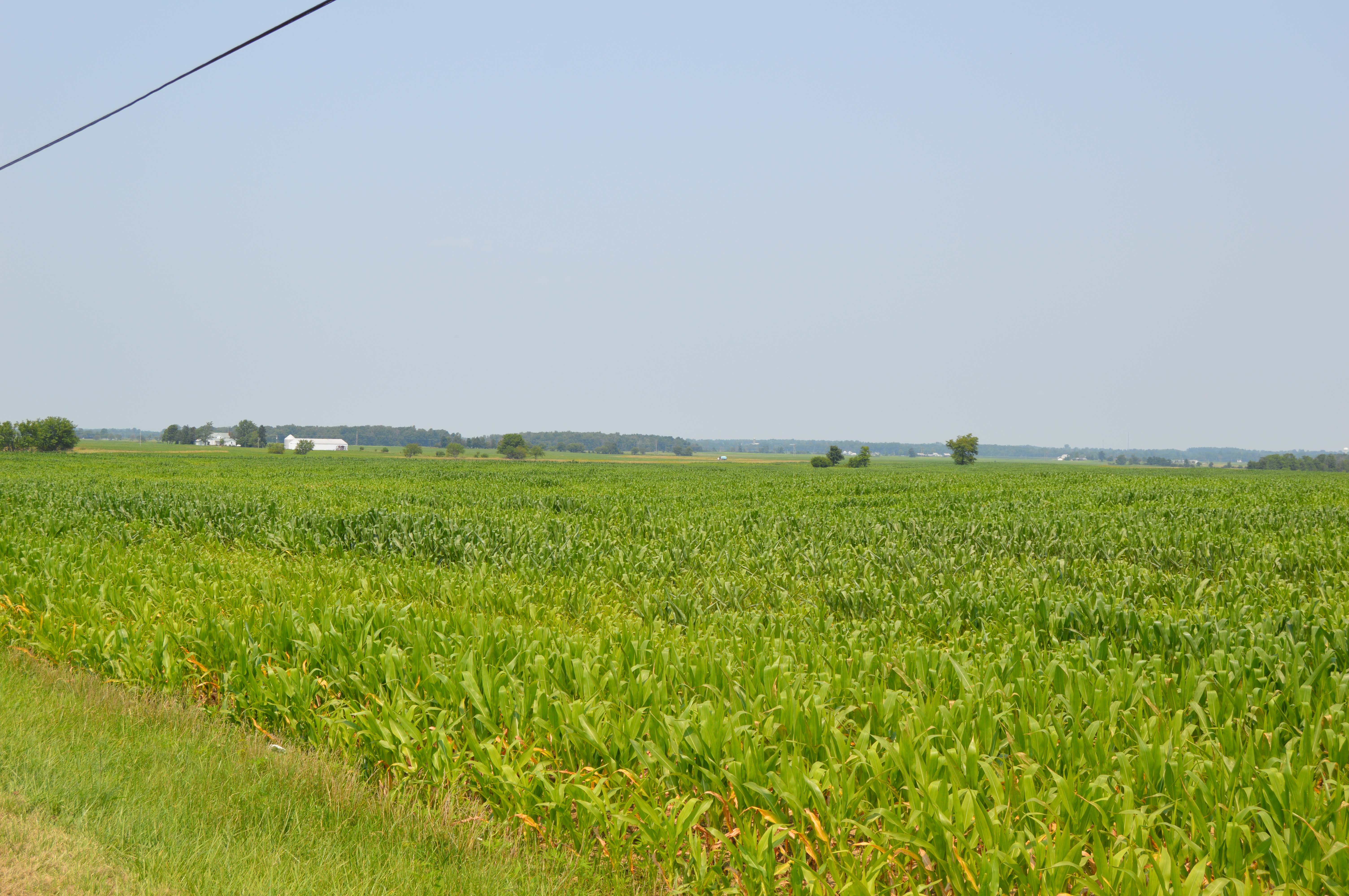 A cornfield on the eastern side of Township Road 115 just north of State Route 67 in Lynn Township, Hardin County, Ohio, United States. Plants closer to the road are on slightly lower ground than plants farther from the road, and consequently the nearer plants have been harmed by recent flooding that has not affected the farther plants.